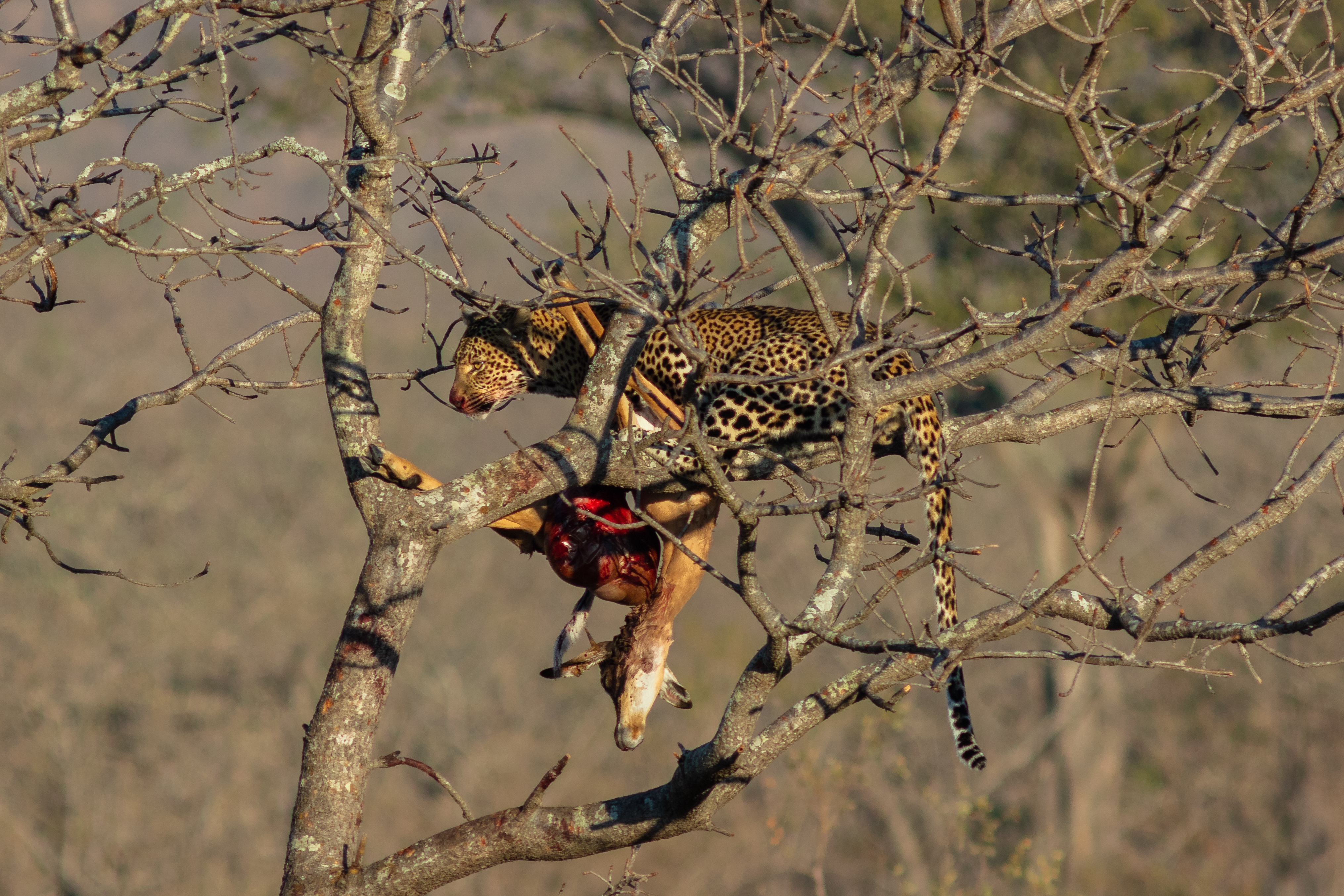 Leopard (Panthera pardus) devouring an antilope, Kruger National Park, South Africa